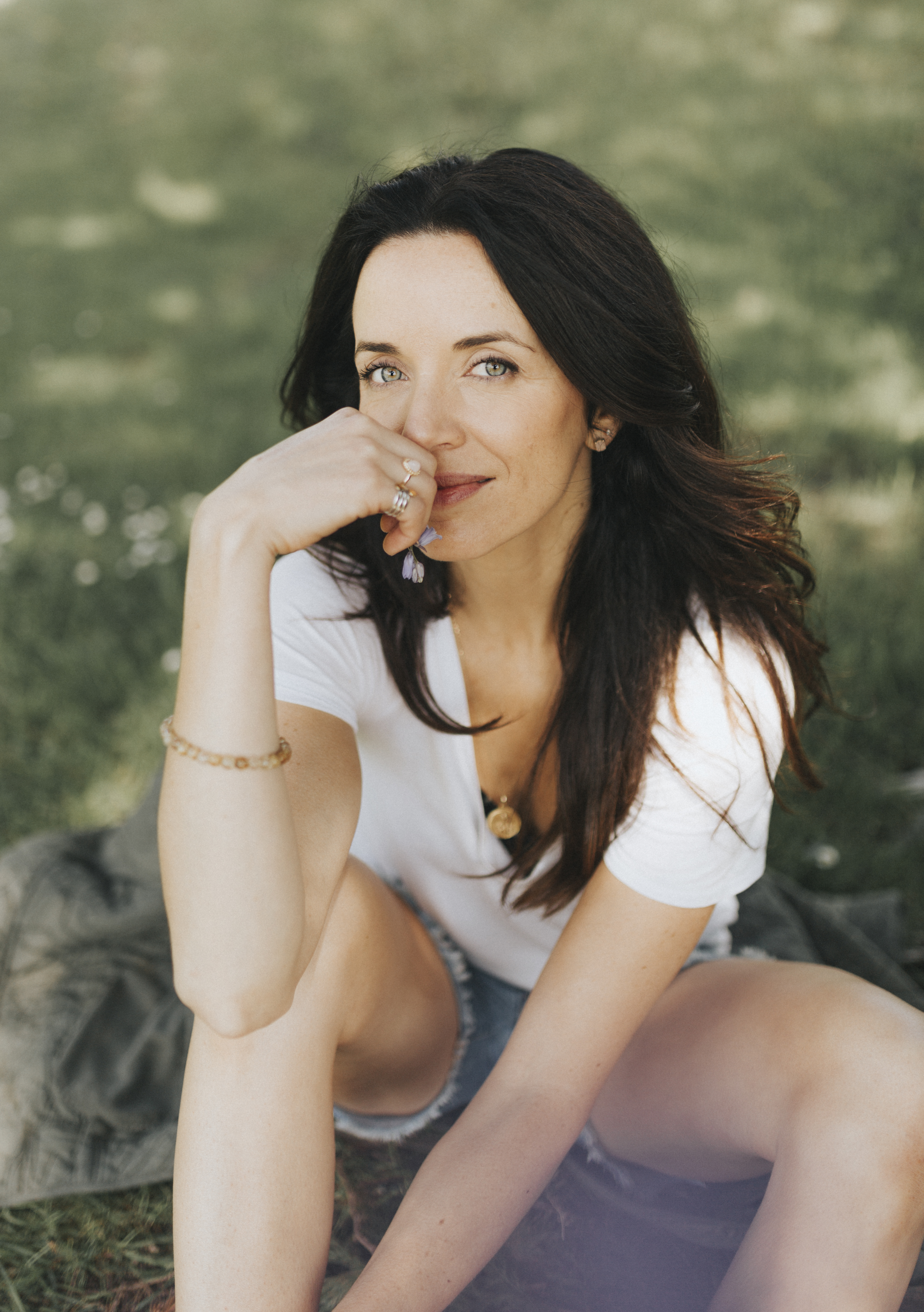 Michelle Morgan photographed by photographer Iulia Agnew in Vancouver